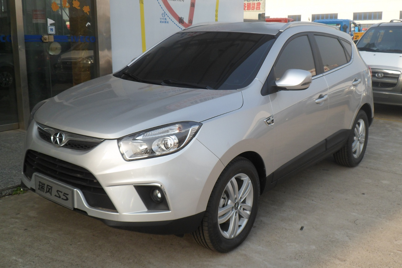 JAC Refine S5 photographed in Shanghai, China.